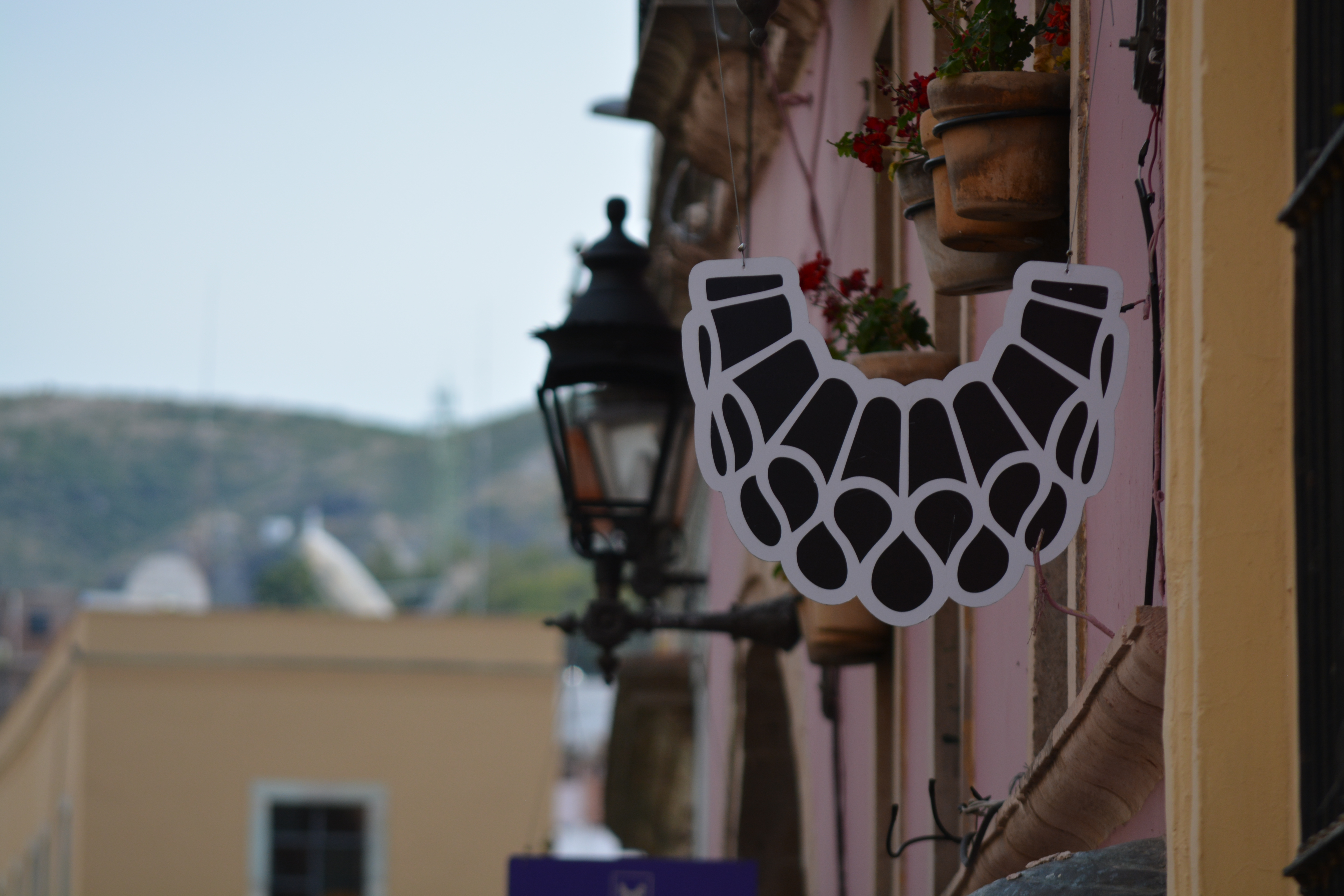 Guanajuato, Guanajuato state, México.